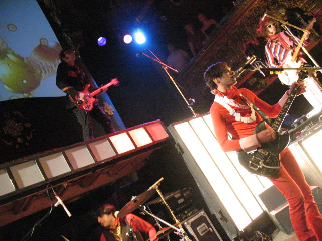 of Montreal performing in San Francisco.